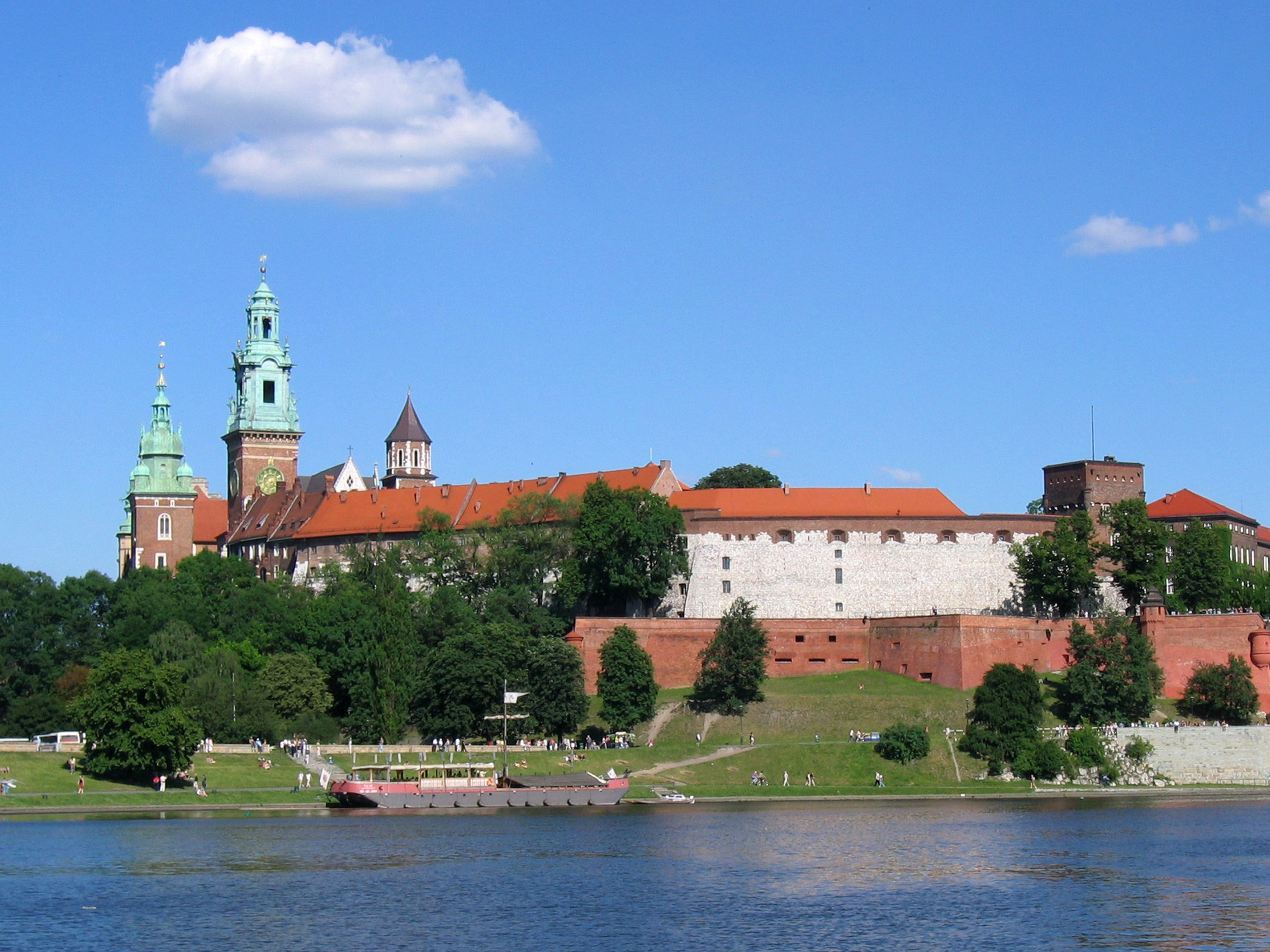 Kraków in Poland. View of Wawel Hill, from the Dutch Wikipedia by Hstoffels